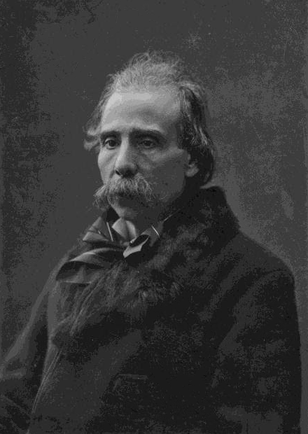 Portrait photograph of Camilo Castelo Branco. An inscription on the back dates it from 7 March, 1882.